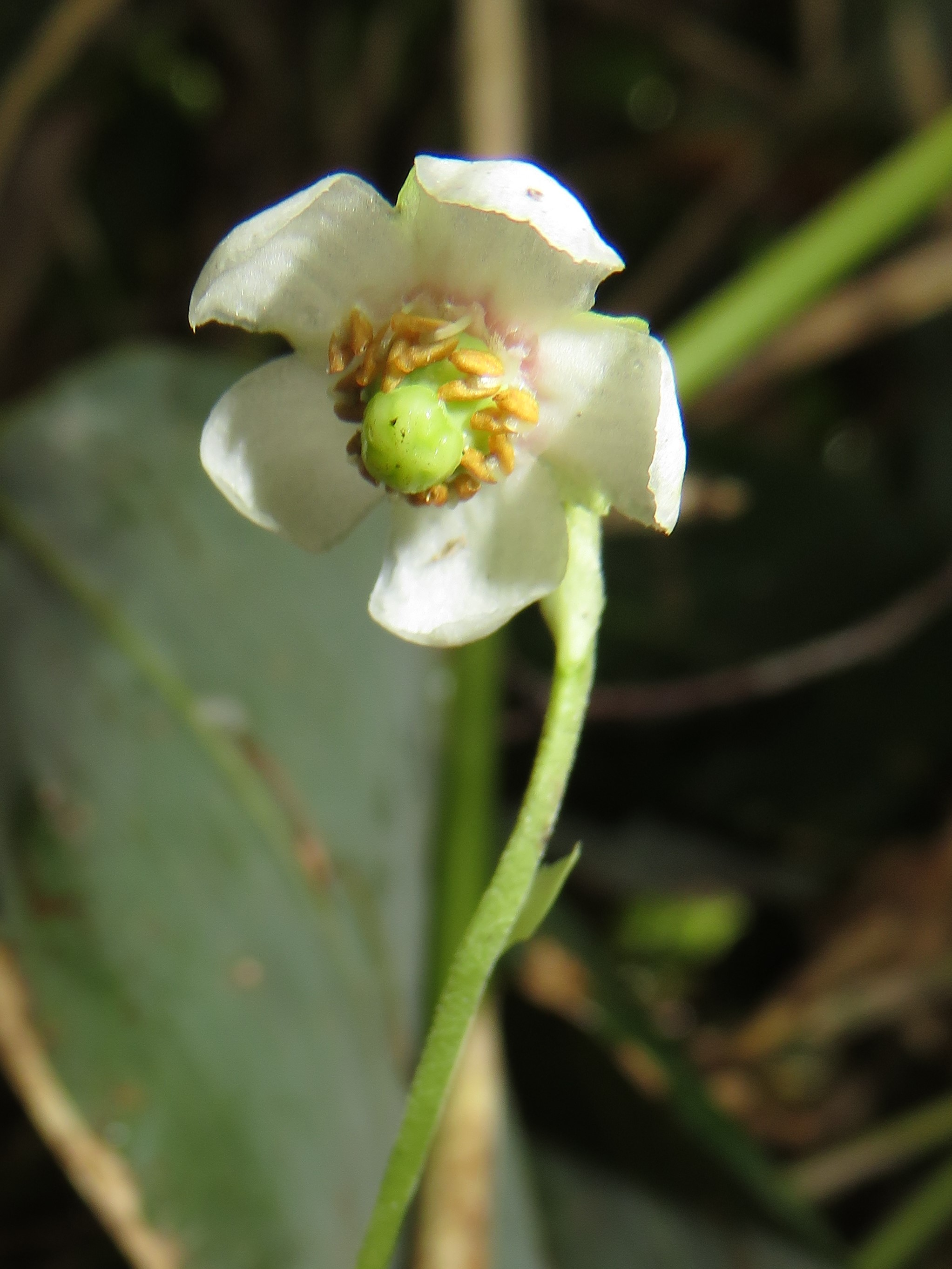 Chimaphila japonica, Aizu area, Fukushima pref., Japan